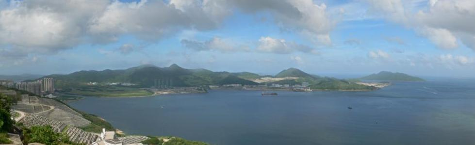 Clear Water Bay Peninsula, a peninsula located in Sai Kung District, which is in the eastern part of The New Territories, Hong Kong